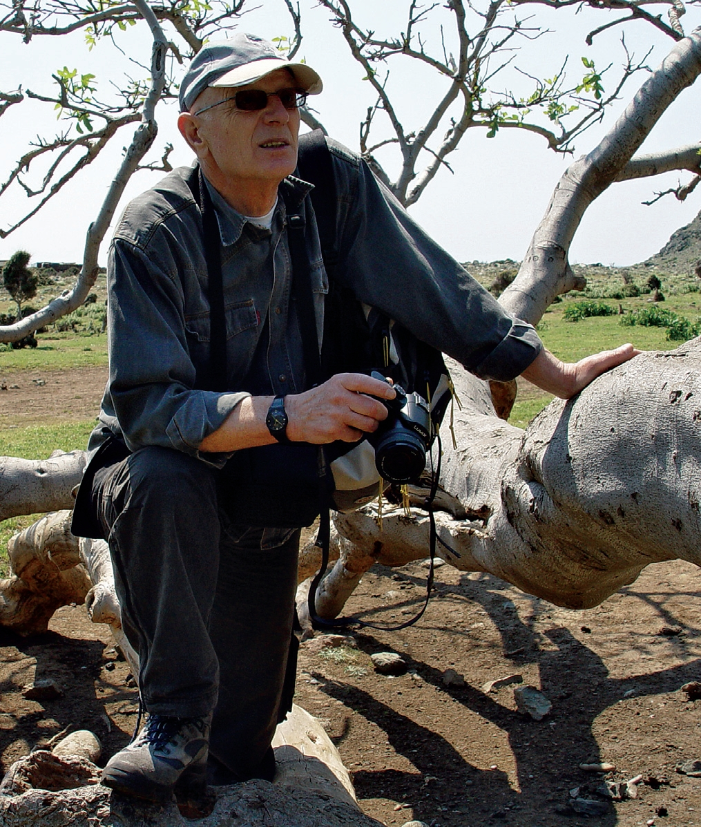 Christo Deltshev, on Samothraki Island, Greece, May, 2008